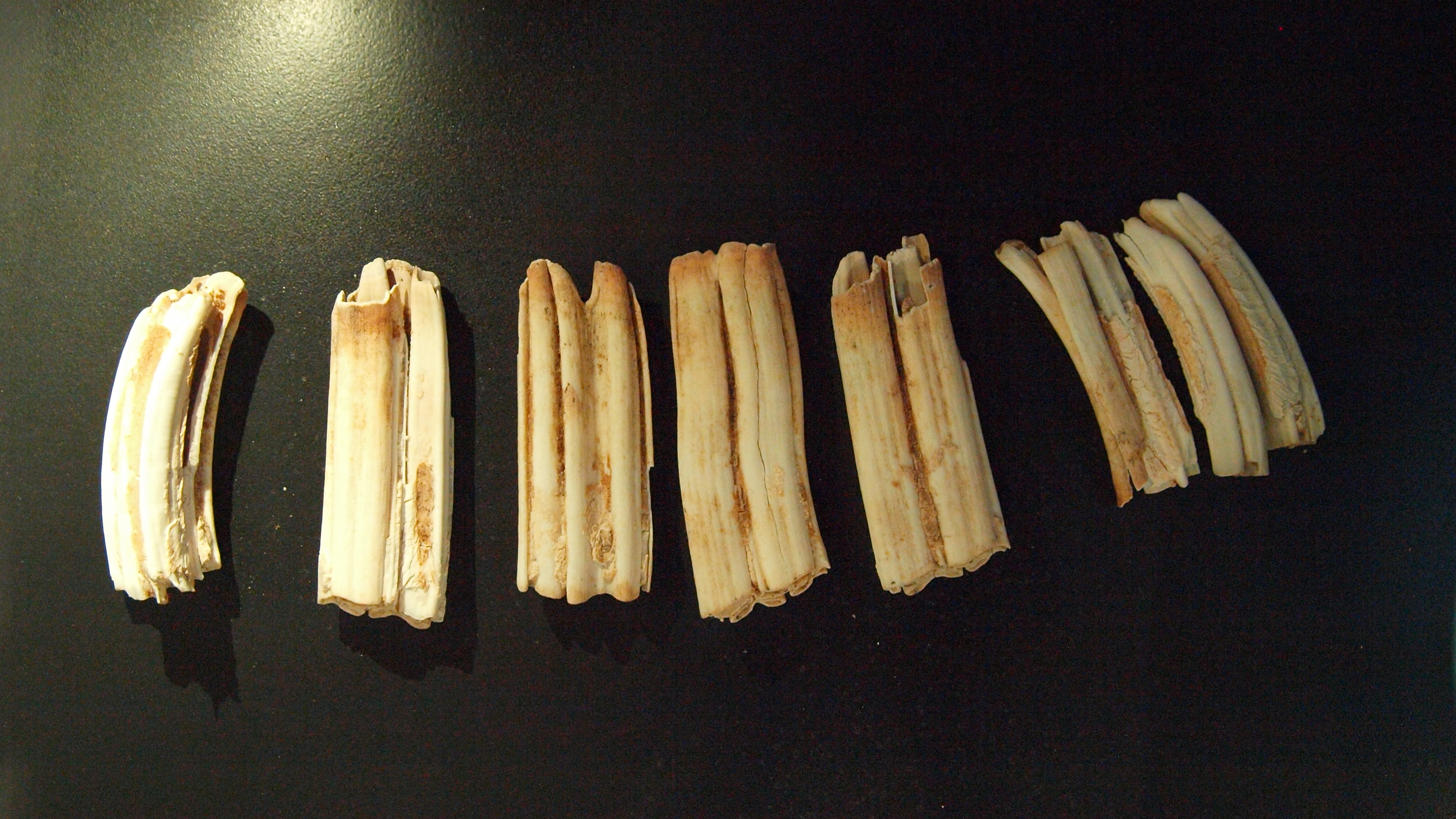 Teeth of a three to four years old horse from a late Saxon combined human and horse burial from Schnelsen, Hamburg, Germany. Dating to second half of 8th century, they are on display in the Helms-Museum (Archäologisches Museum Hamburg), Hamburg-Harburg, Germany.